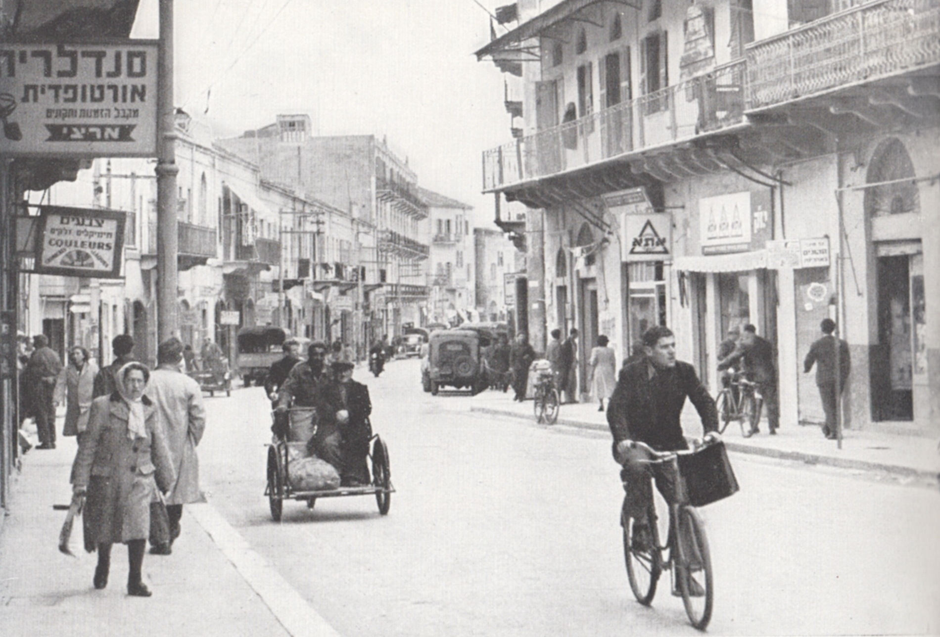 Jaffa, Boustrous Street , Cities in Israel